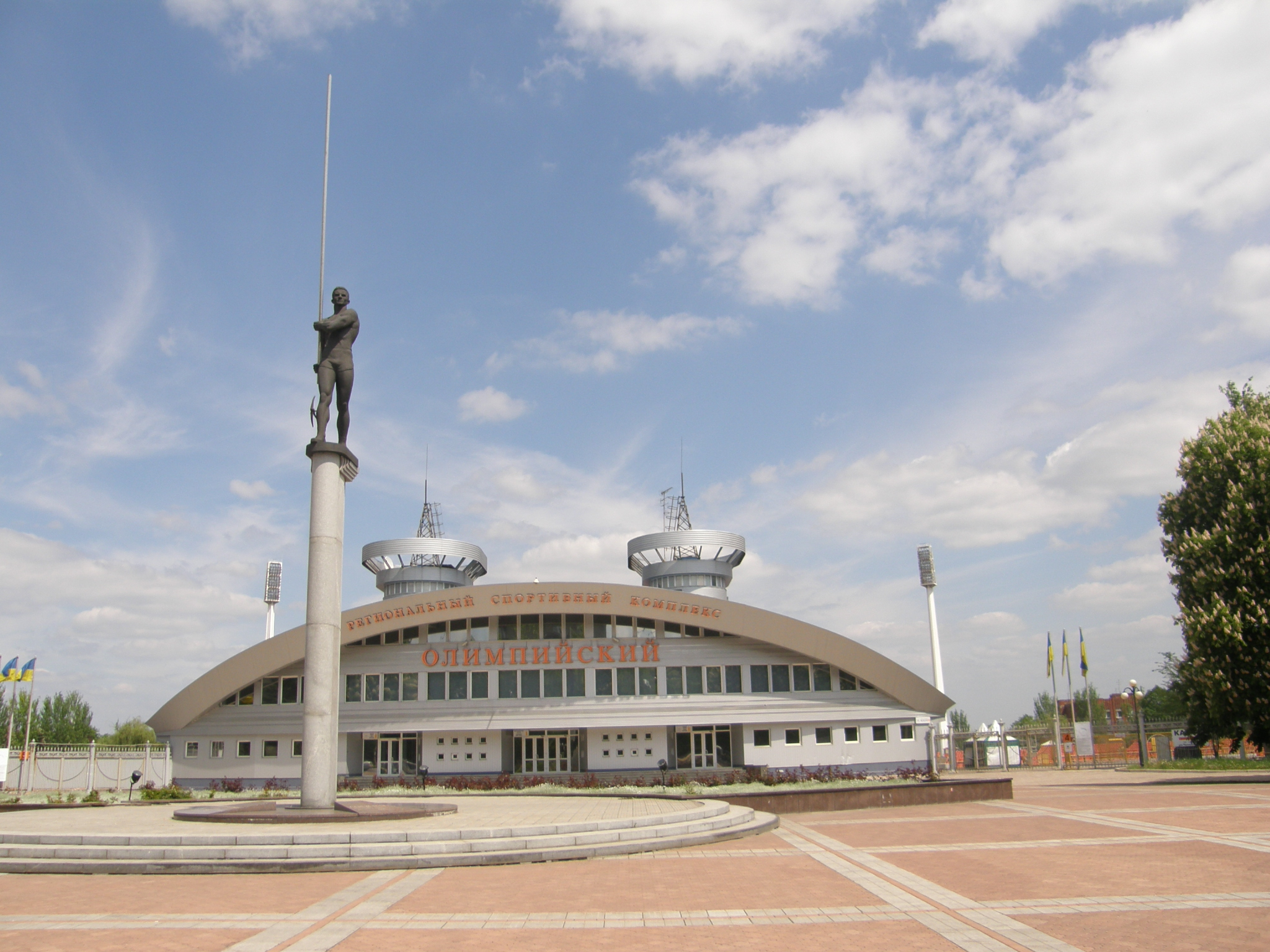 RSC Olimpiyskyi